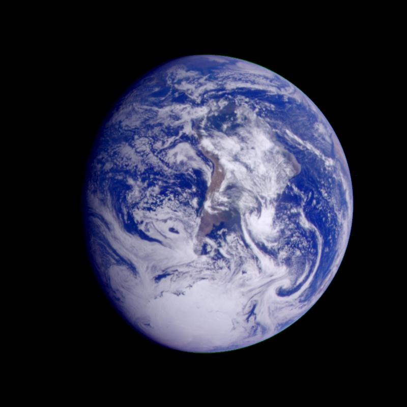 Original Caption Released with Image: This color image of the Earth was obtained by Galileo at about 6:10 a.m. Pacific Standard Time on Dec. 11, 1990, when the spacecraft was about 1.3 million miles from the planet during the first of two Earth flybys on its way to Jupiter. The color composite used images taken through the red, green and violet filters. South America is near the center of the picture, and the white, sunlit continent of Antarctica is below. Picturesque weather fronts are visible in the South Atlantic, lower right. This is the first frame of the Galileo Earth spin movie, a 500- frame time-lapse motion picture showing a 25-hour period of Earth's rotation and atmospheric dynamics.